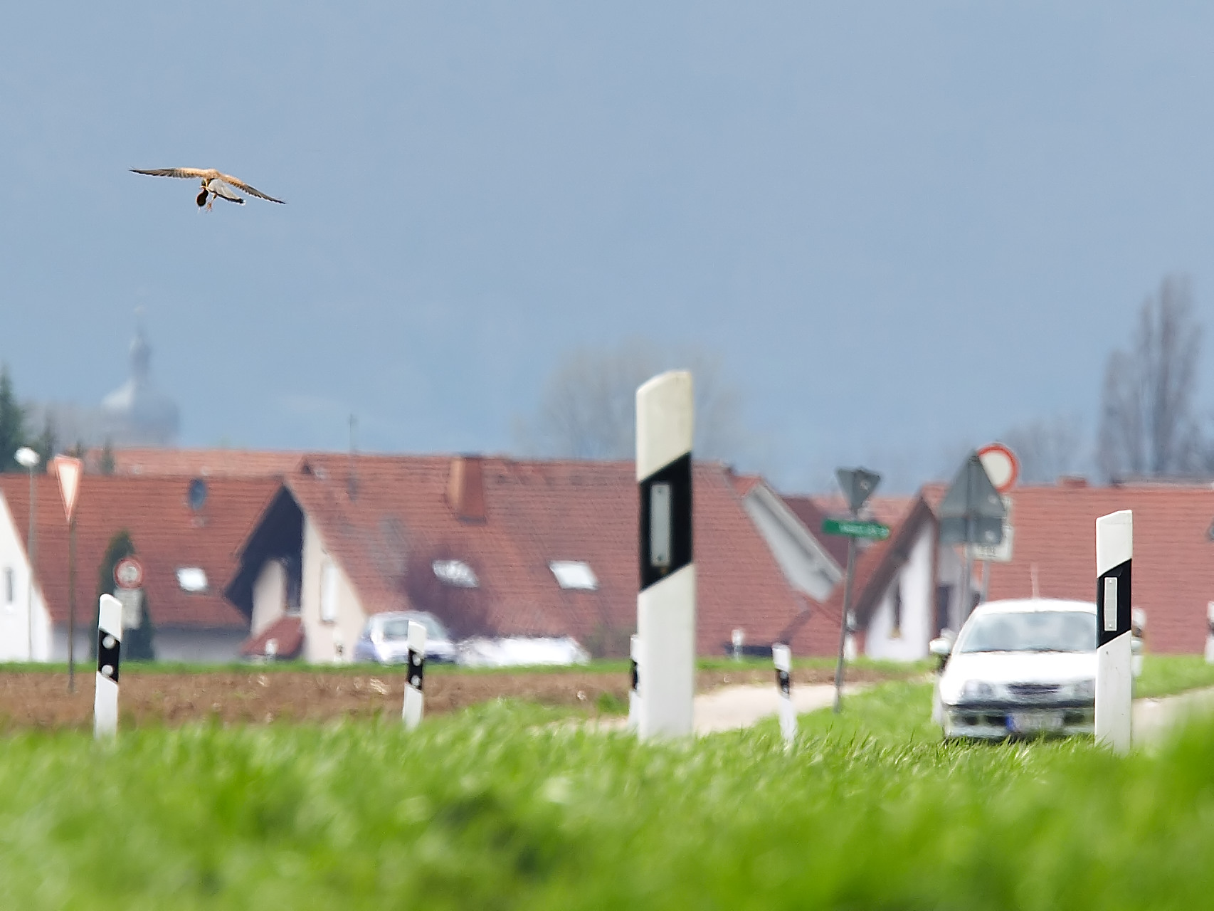 Falco tinnunculus ♂ hunting in todays cultural landscape